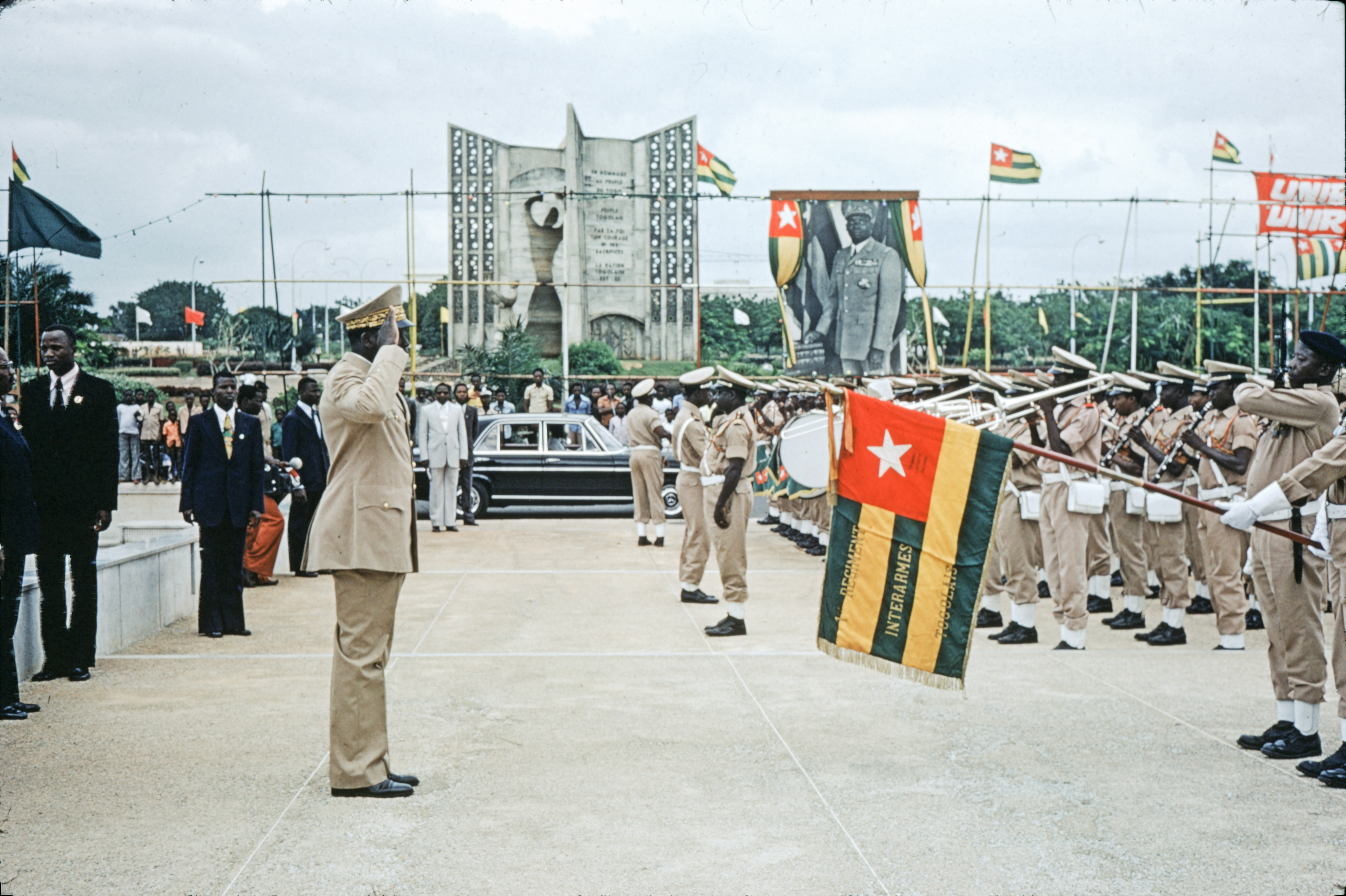 Togolese president Gnassingbé Eyadema.